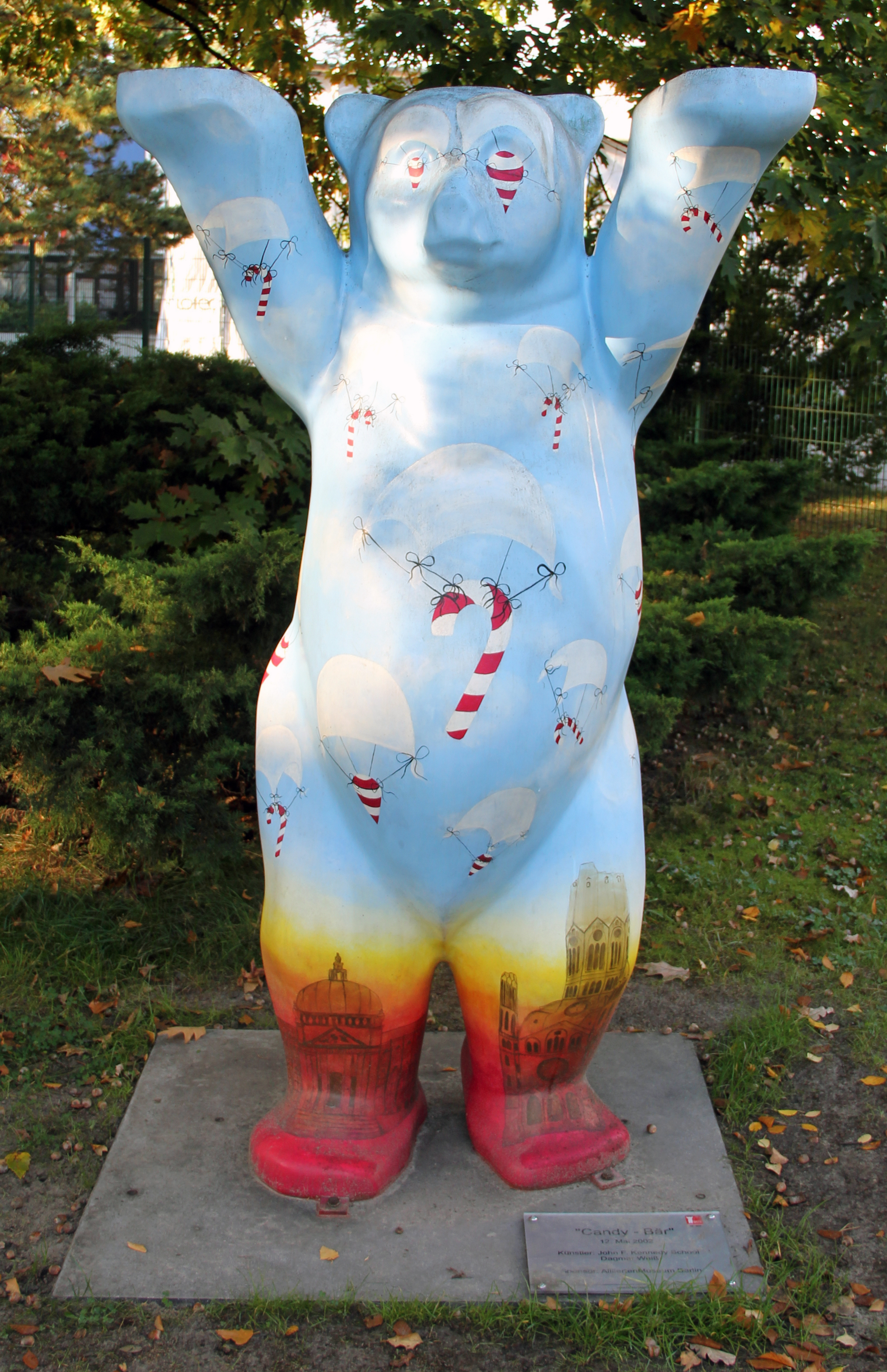 Sculpture, "Candy Bär", Clayallee 135, Berlin-Dahlem, Germany